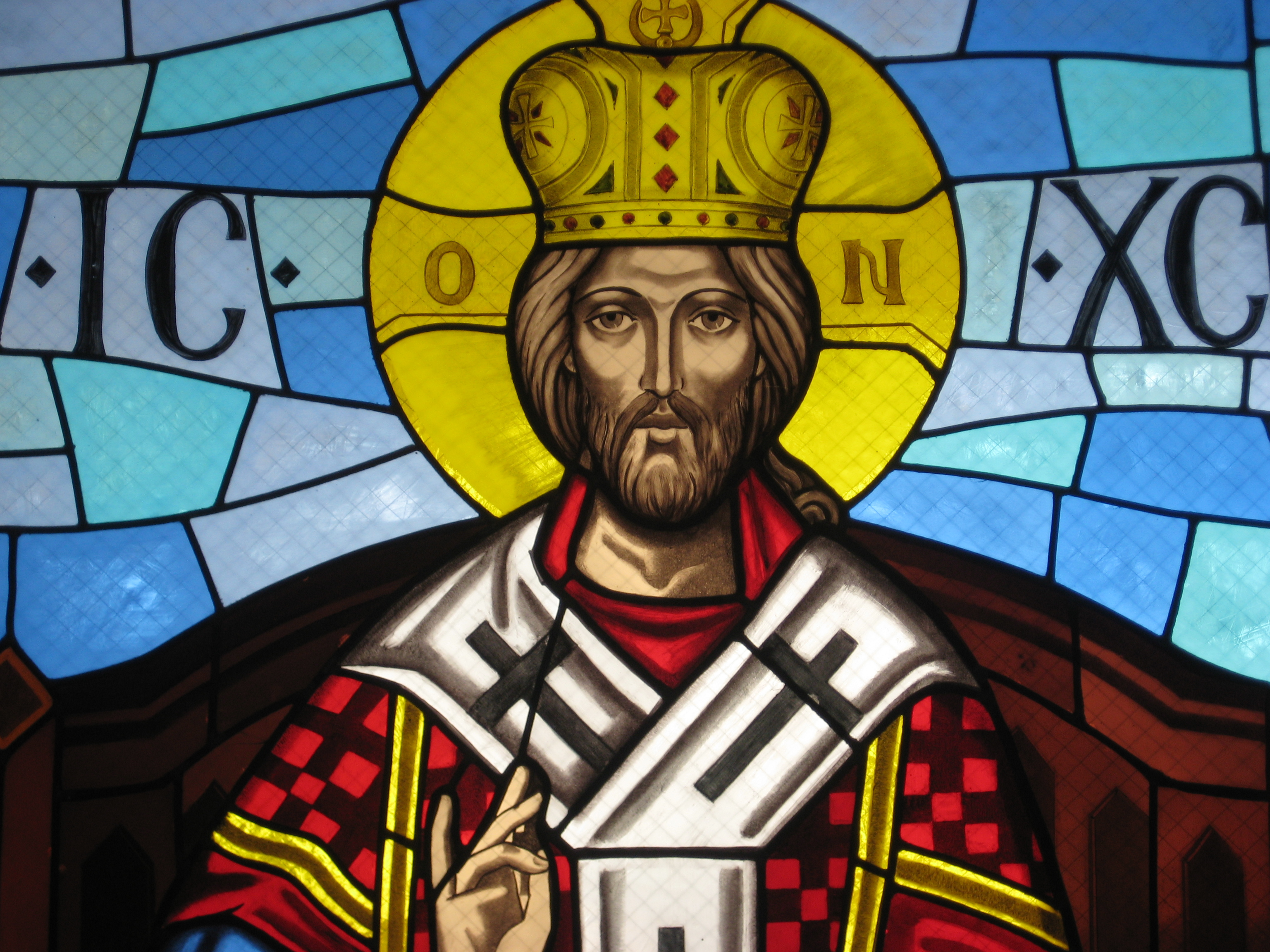 Stained glass window at the Melkite Catholic Annunciation Cathedral in Roslindale depicting Christ the King with the regalia of a Byzantine emperor. January 2009 photo by John Stephen Dwyer